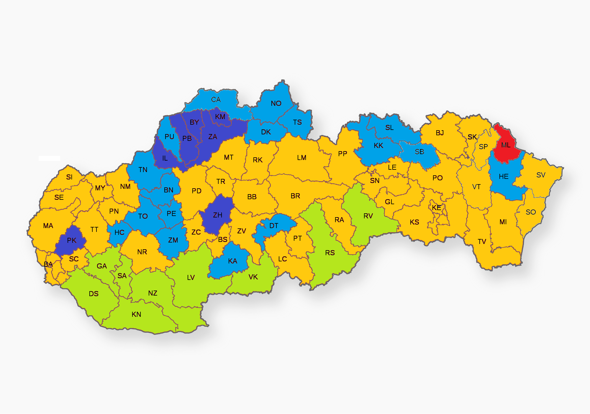 The results of the election for the Slovak National Council in 1990 at district level.